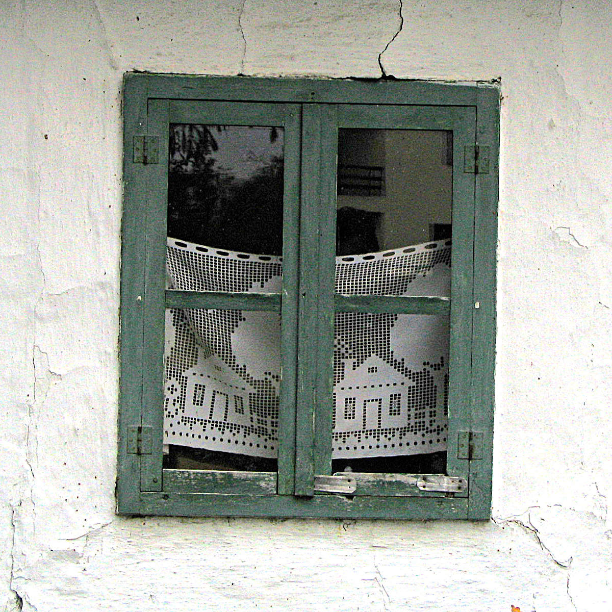 Window from West Serbian village